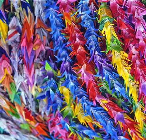 Paper cranes prayers for peace. Peace Memorial Park, Hiroshima Japan